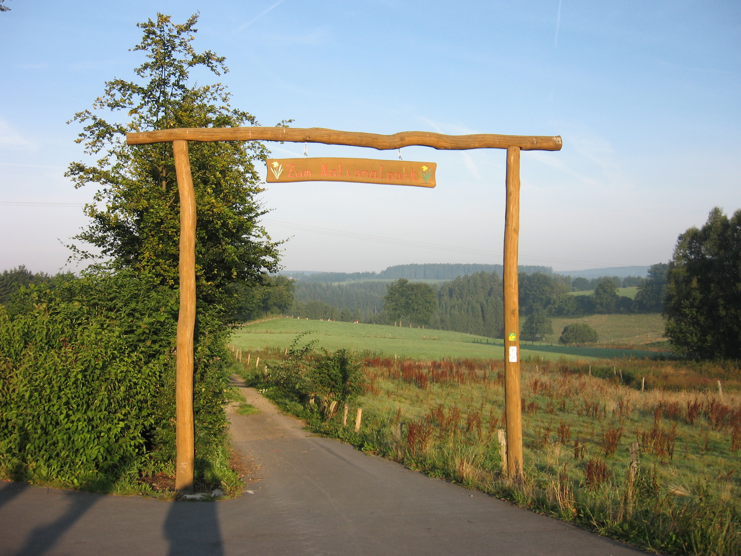 Nationalparktor - Höfen